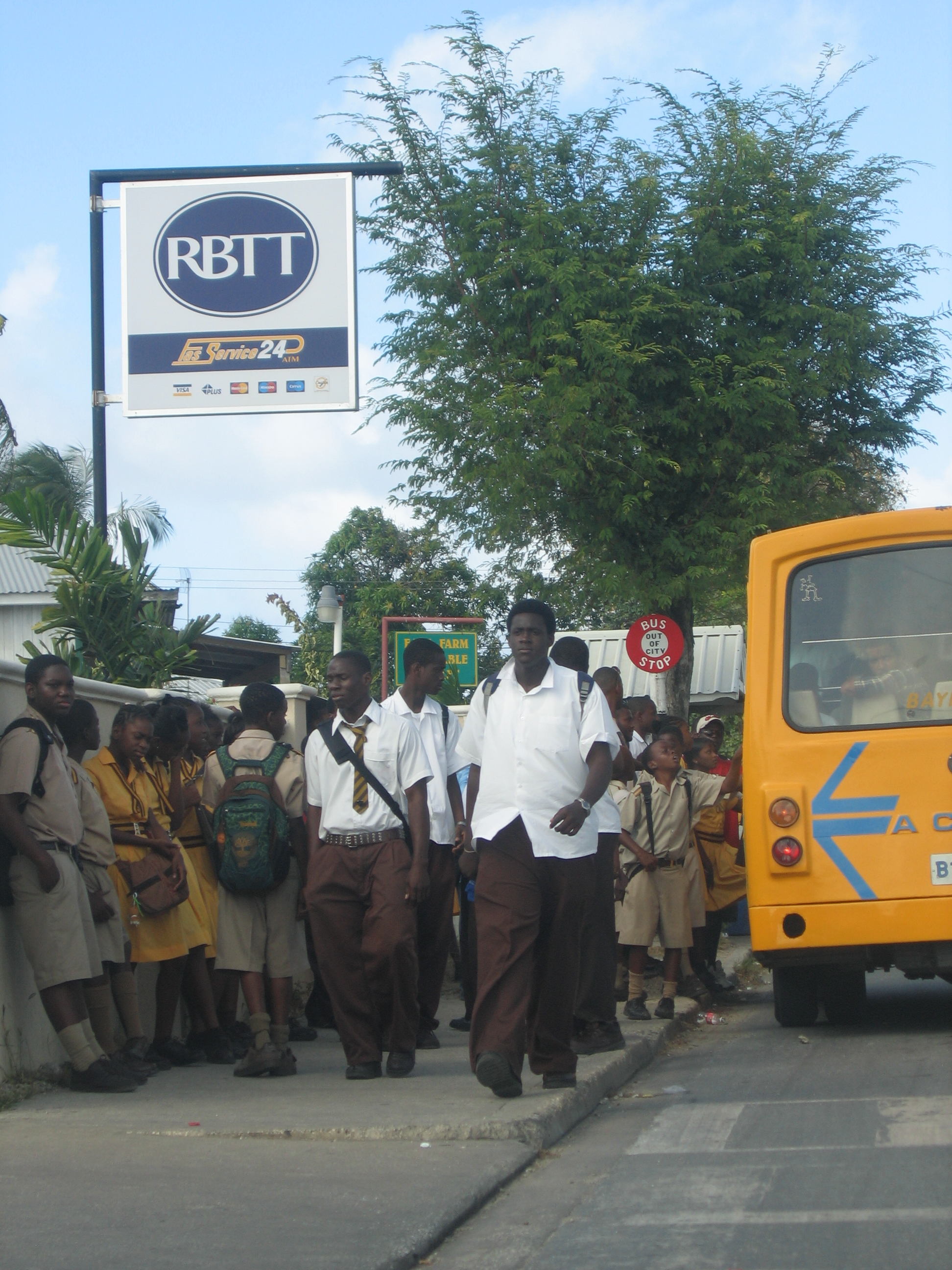 Uniformed schoolchildren in Christ Church, Barbados.